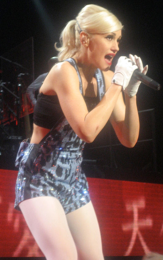 Gwen stefani sing WYWF?